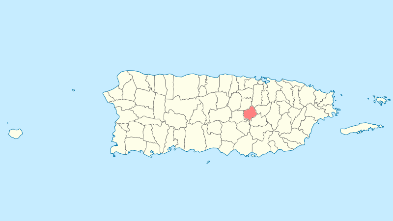 Municipal locator of Puerto Rico